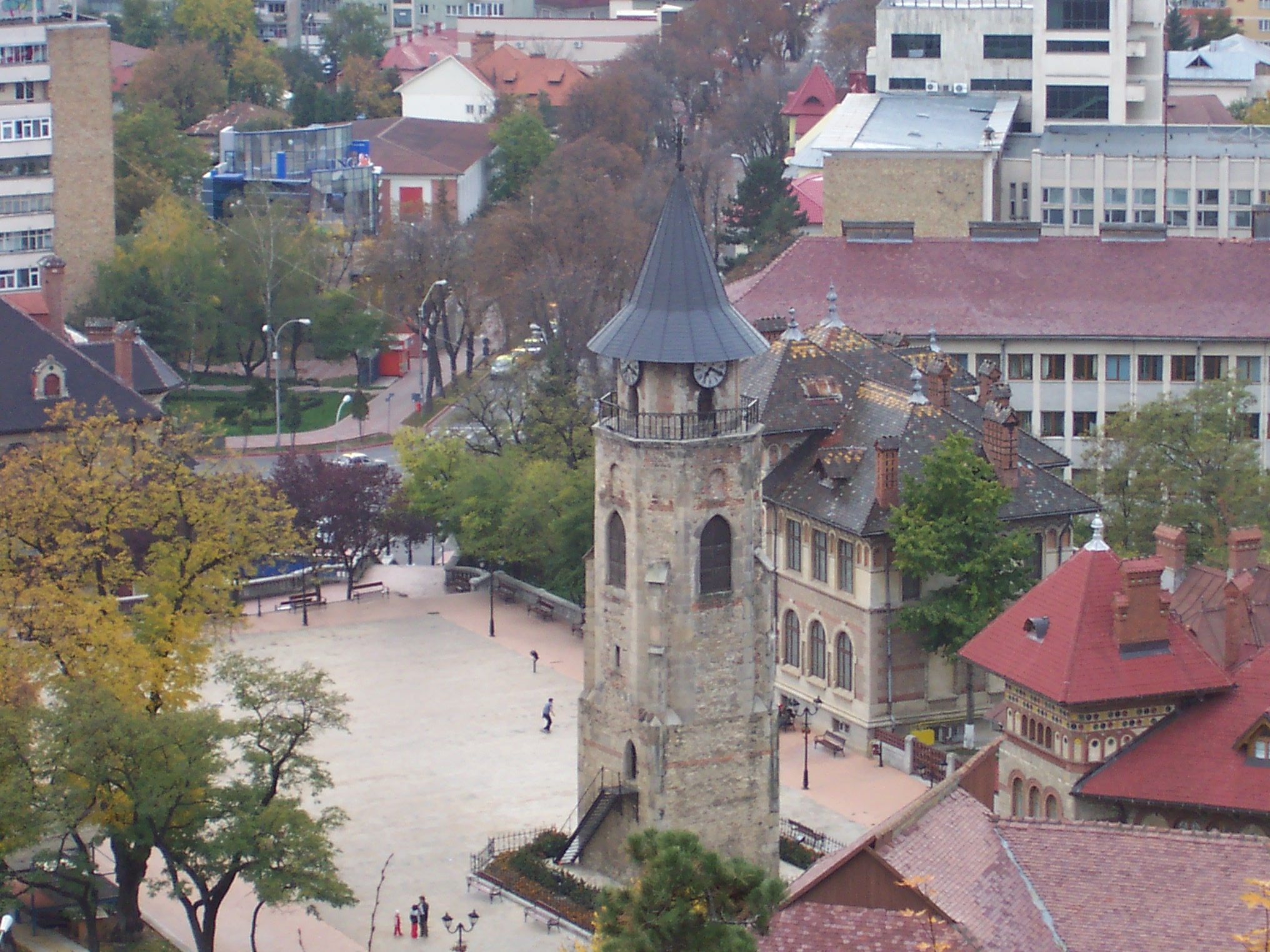 courtesy of Irina Burlacu